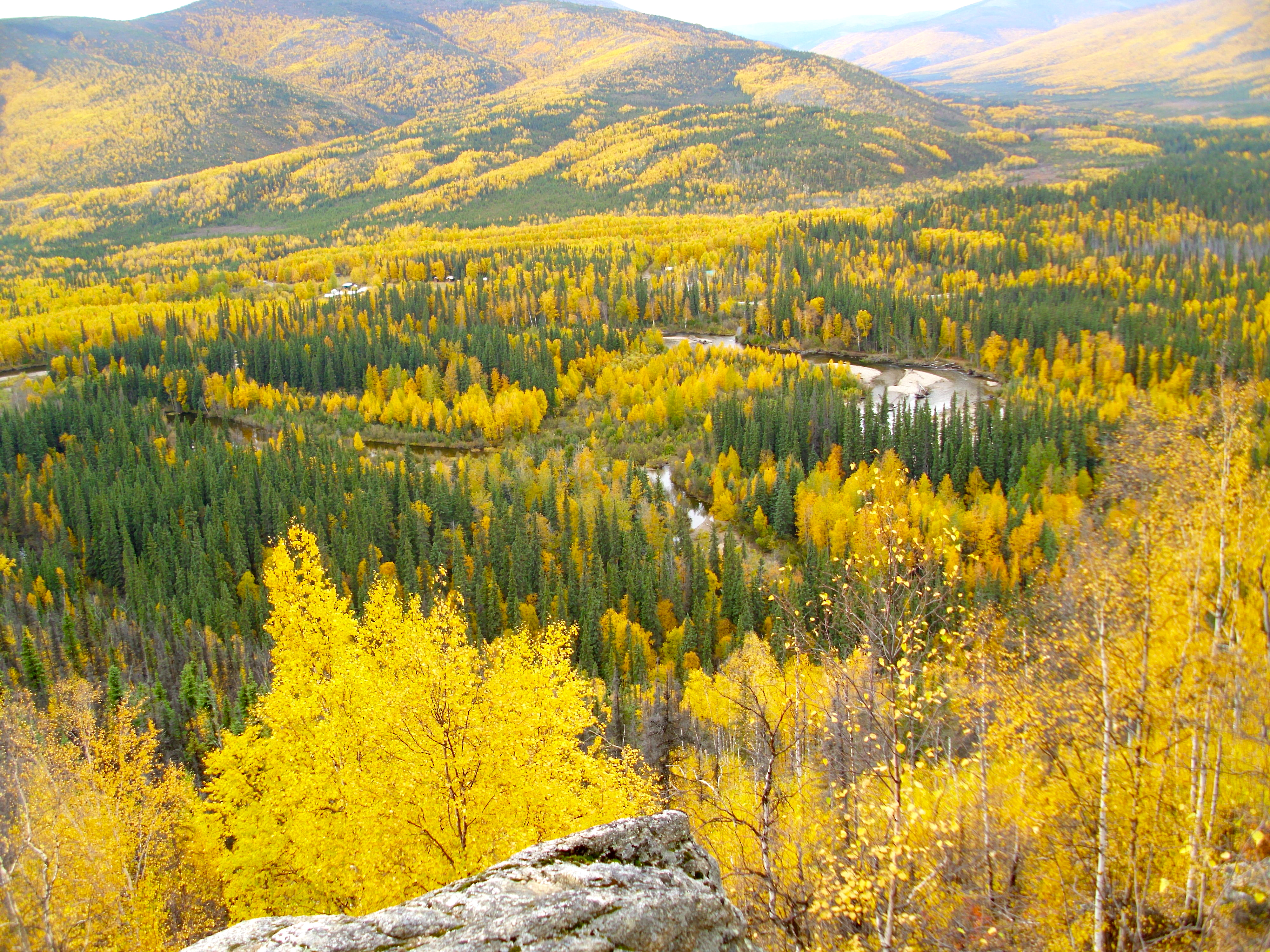 North Fork of the Chena River, Chena River State Recreation Area, Fairbanks North Star Borough, Alaska